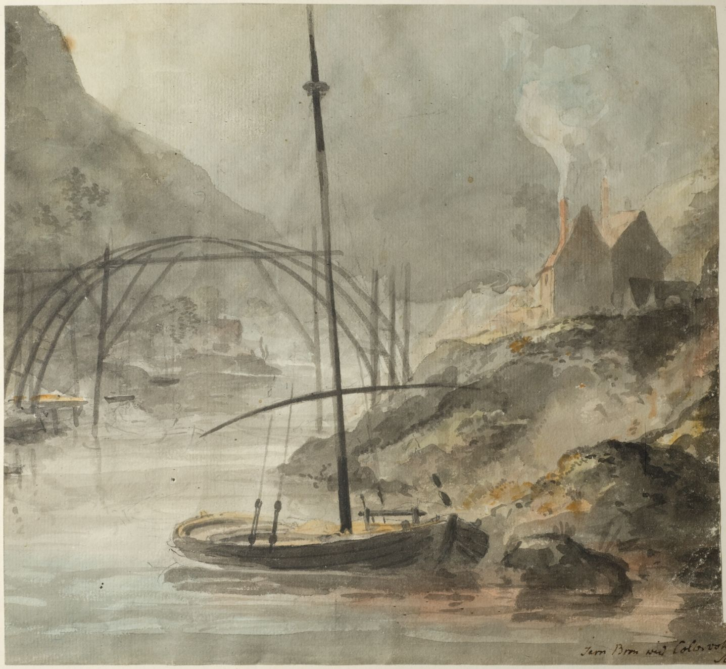 Elias Martin painting of the Iron Bridge under construction, July 1779. This is the only known painting of the Iron Bridge during construction. de Haan, David (17 February 2011). The Iron Bridge - How was it Built?. BBC. Retrieved on 11 June 2018.